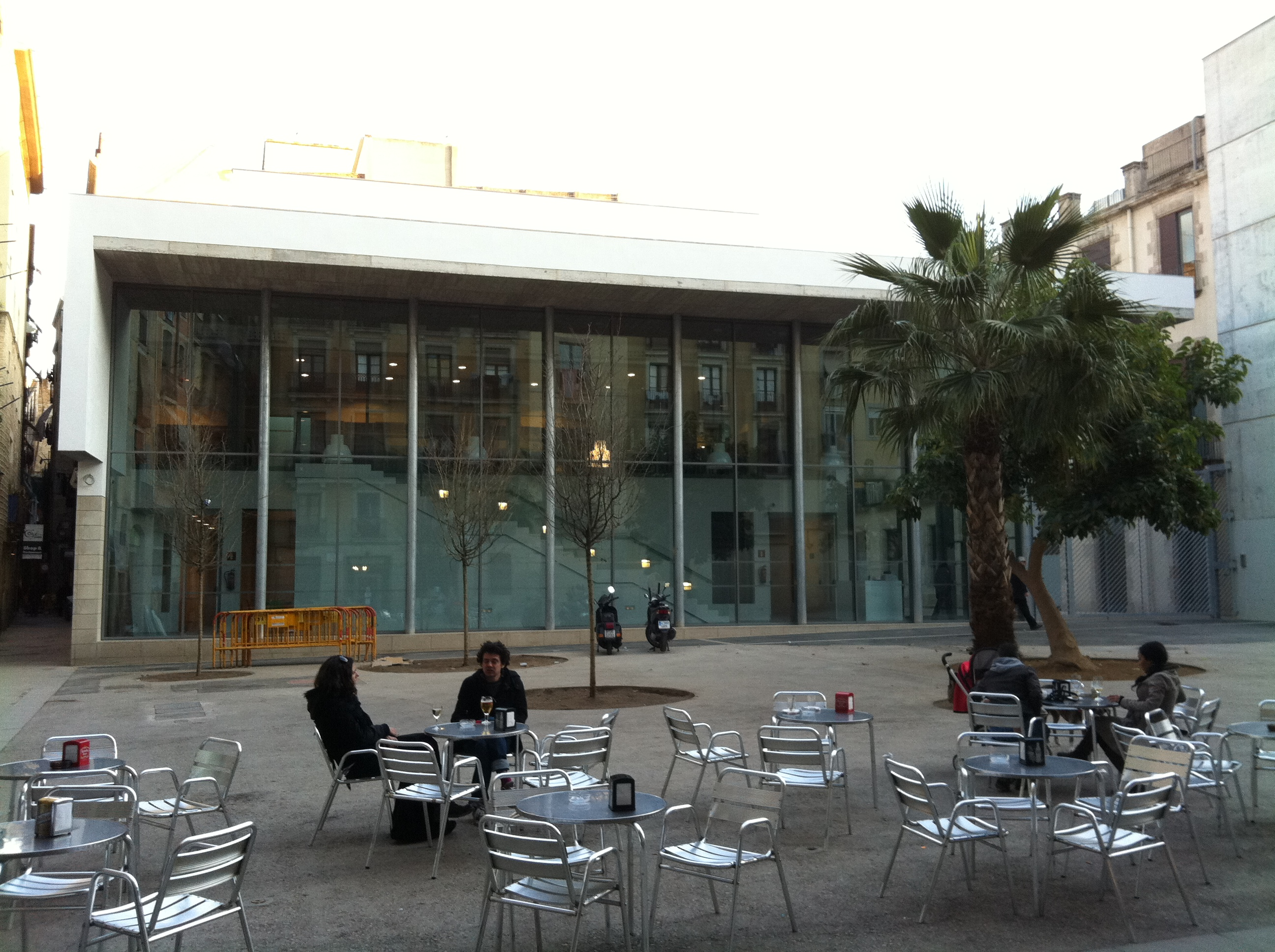 Sabartes Square with Research Center of Museu Picasso in Barcelona